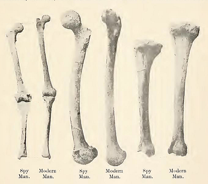 Showing leg bones: 3 pairs: Spy man (left) / modern man (right)